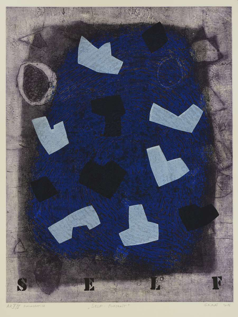 Zoran Grmaš,Self Portrait, 2016 Srpski (latinica): Kolografija, Autoportret - 2016